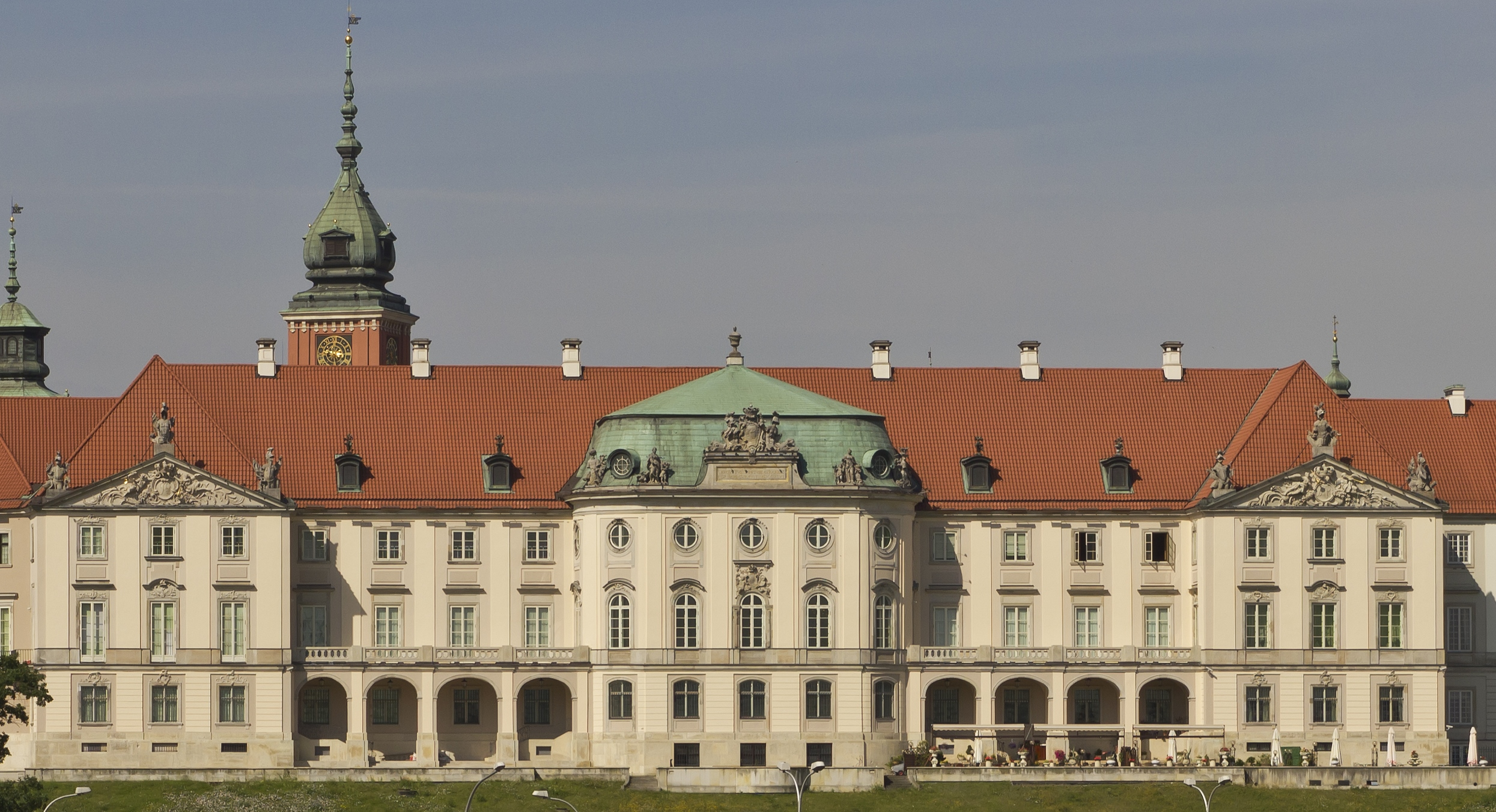 Royal Castle of Warsaw (Poland) Eastern (Saxon) facade